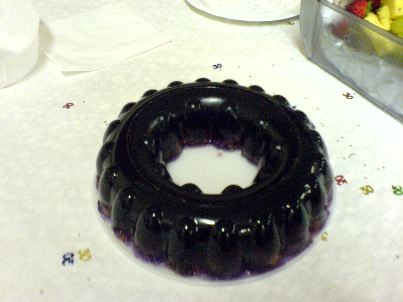 Jelly moulded into a decorative shape.